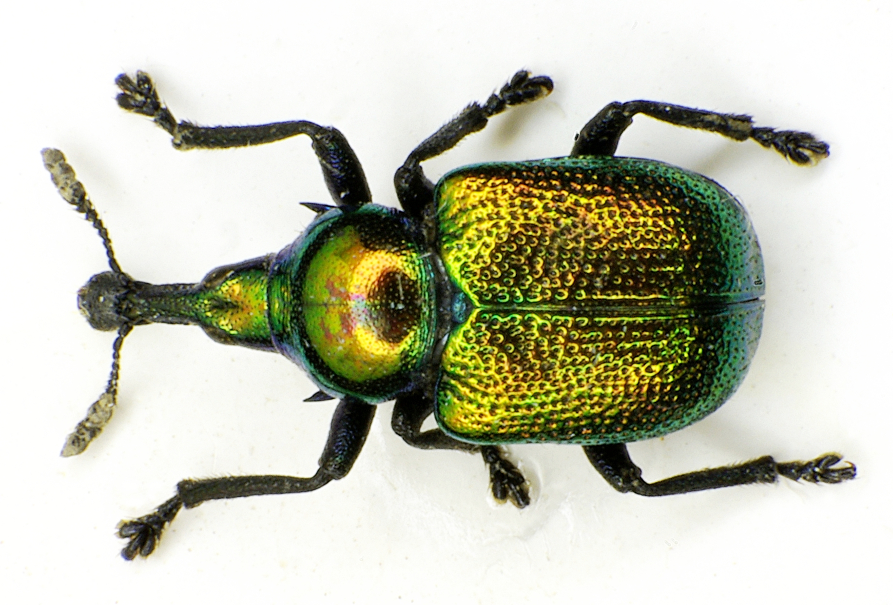 Byctiscus populi male from collection